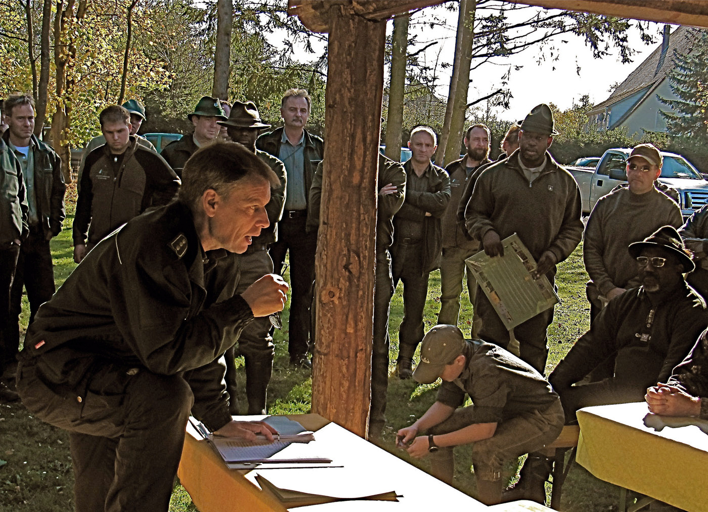 Grafenwoehr Forest Director Ulrich Maushake welcomes hunters and introduces them to their hunting guides. (Photo Credit: U.S. Army photo)